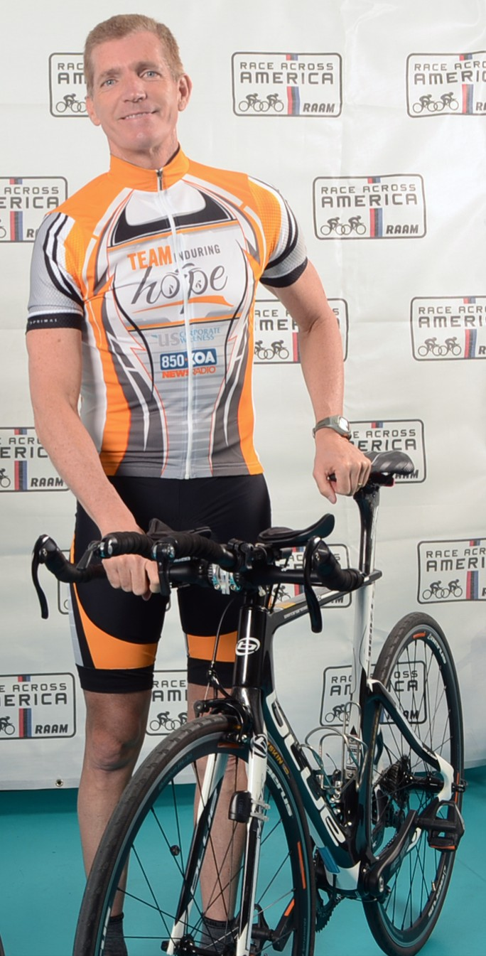 Race Across America RM15_203_Brad Cooper Jerry Schemmel